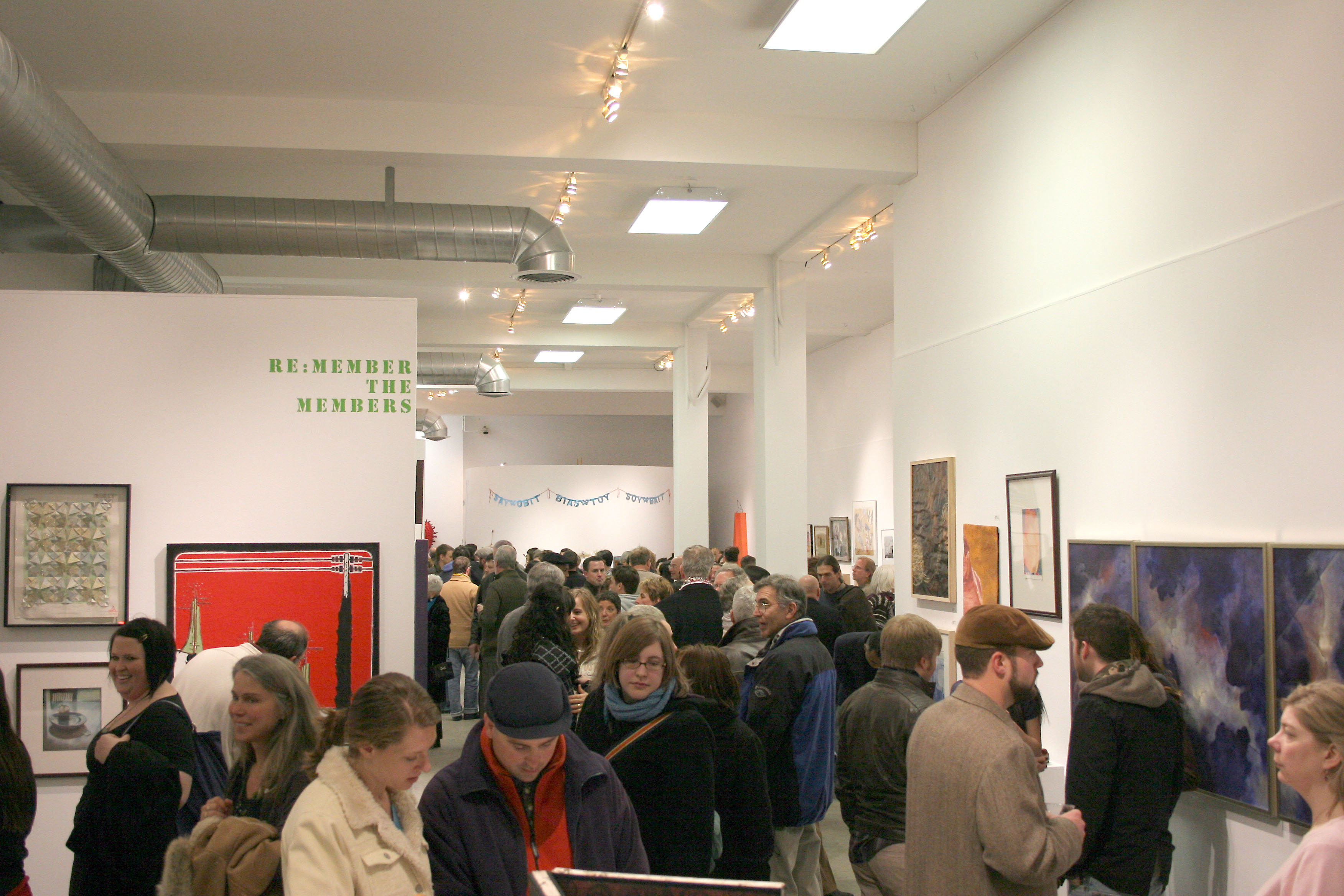 Opening Reception at Rochester Contemporary Art Center